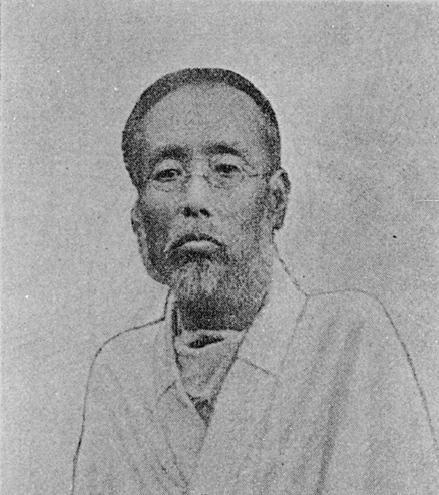 Portrait of Nakae Chomin (中江兆民, 1847 – 1901)